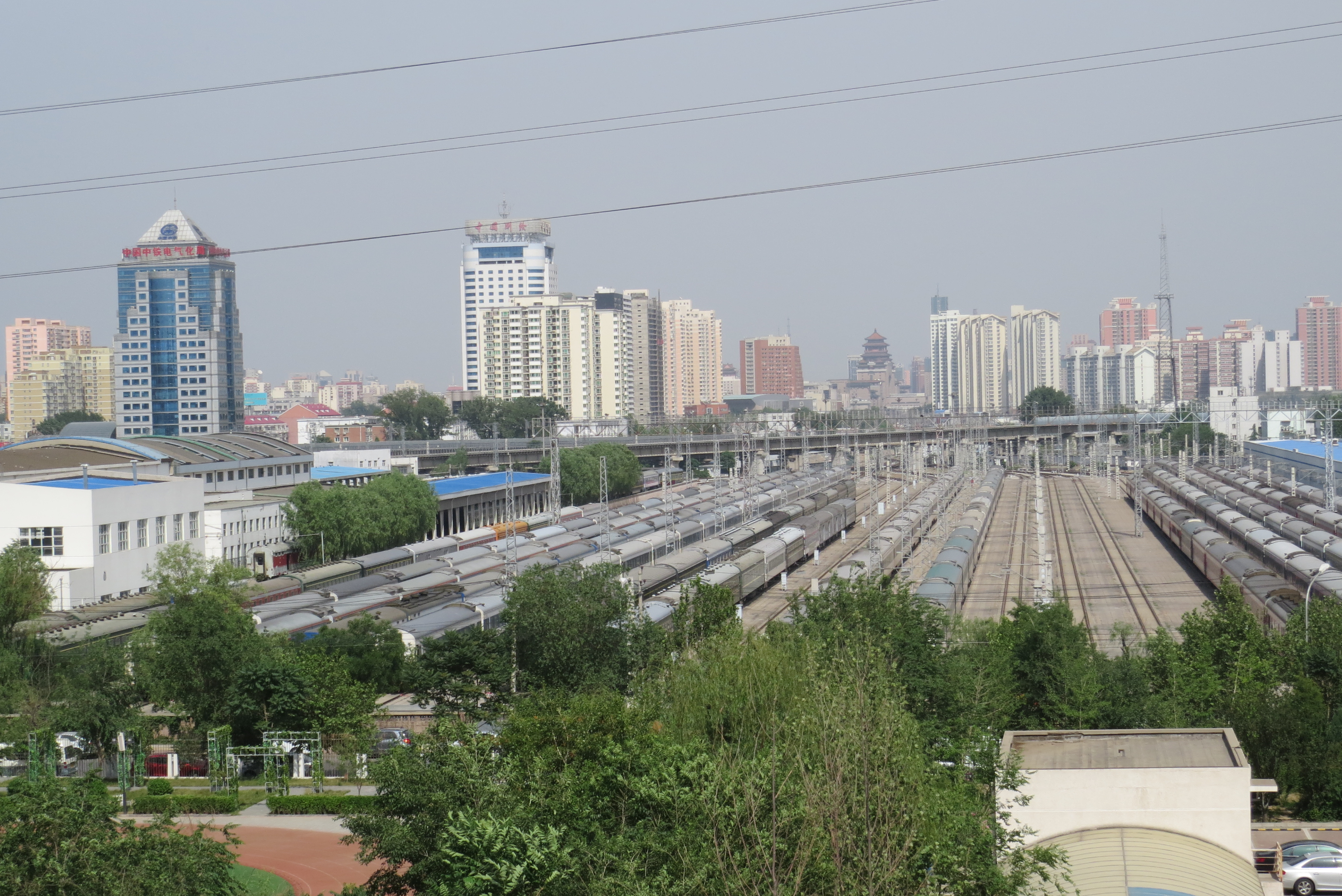 Bathing the sunshine...